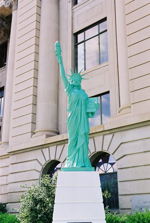 Lady Liberty, part of Strengthen the Arm of Liberty in Greeley, Colorado